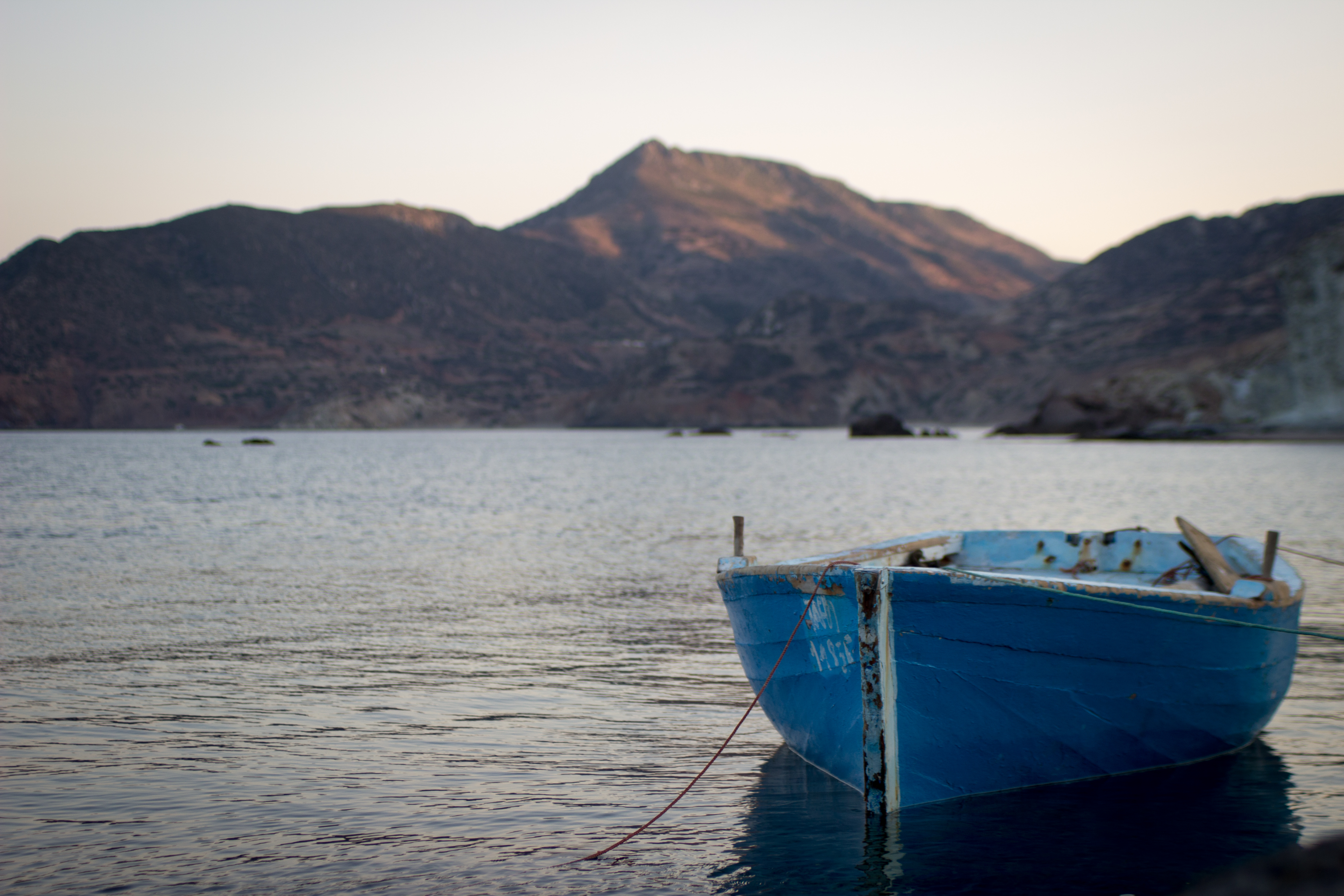 boat, Sea in the South Mediterranean_El maghreb